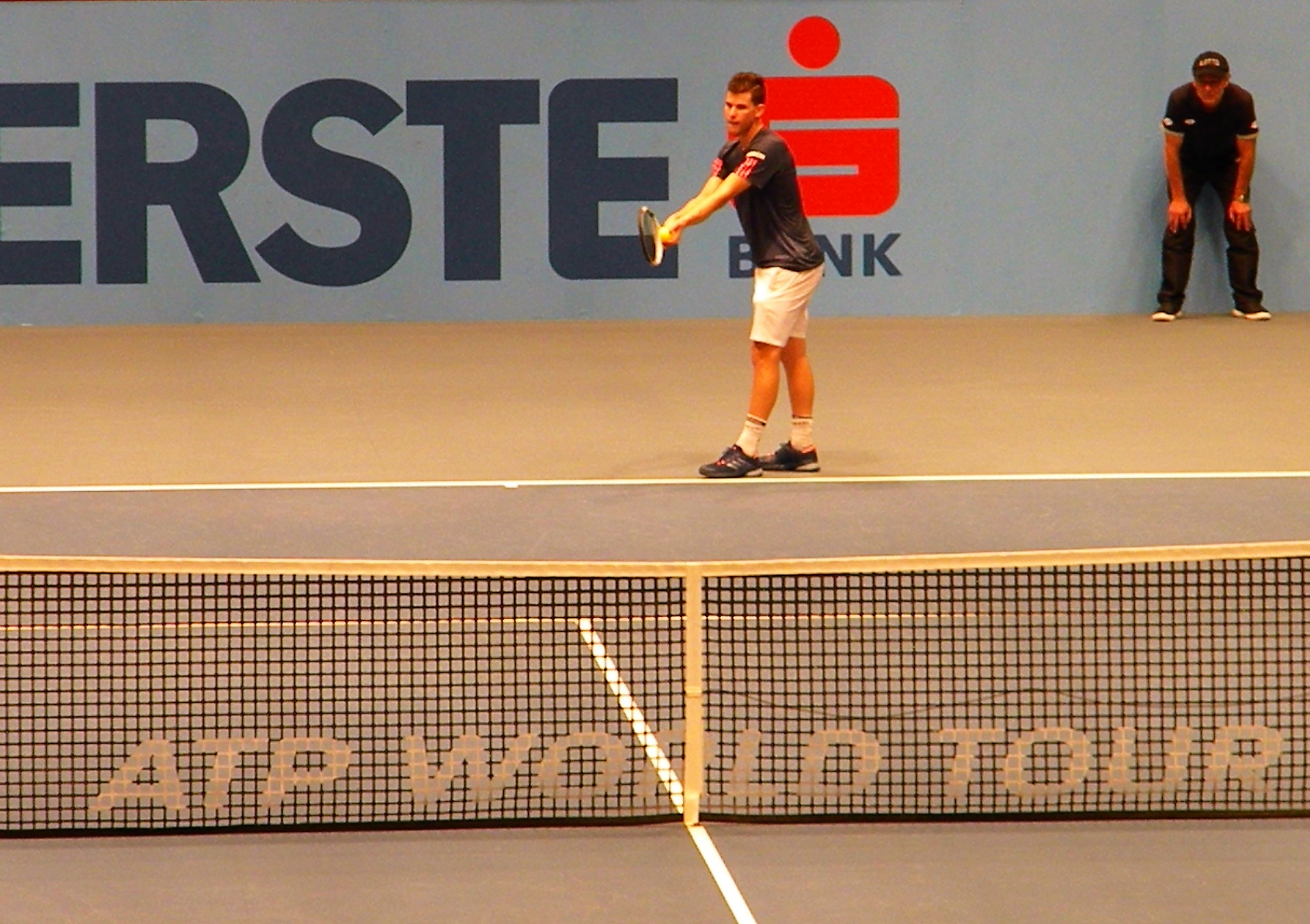 10/25/2016; Dominic Thiem (Austria) against Gerald Melzer (Austria) 2-0; First Round